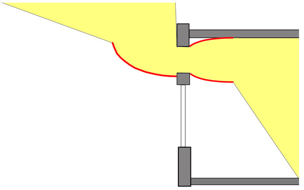 A simple example of Anidolic lighting, with a zenithal collector and plain internal diffuser.